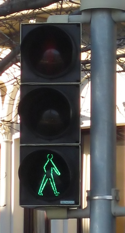 Switzerland, Lugano: pedestrian light traditional version, green